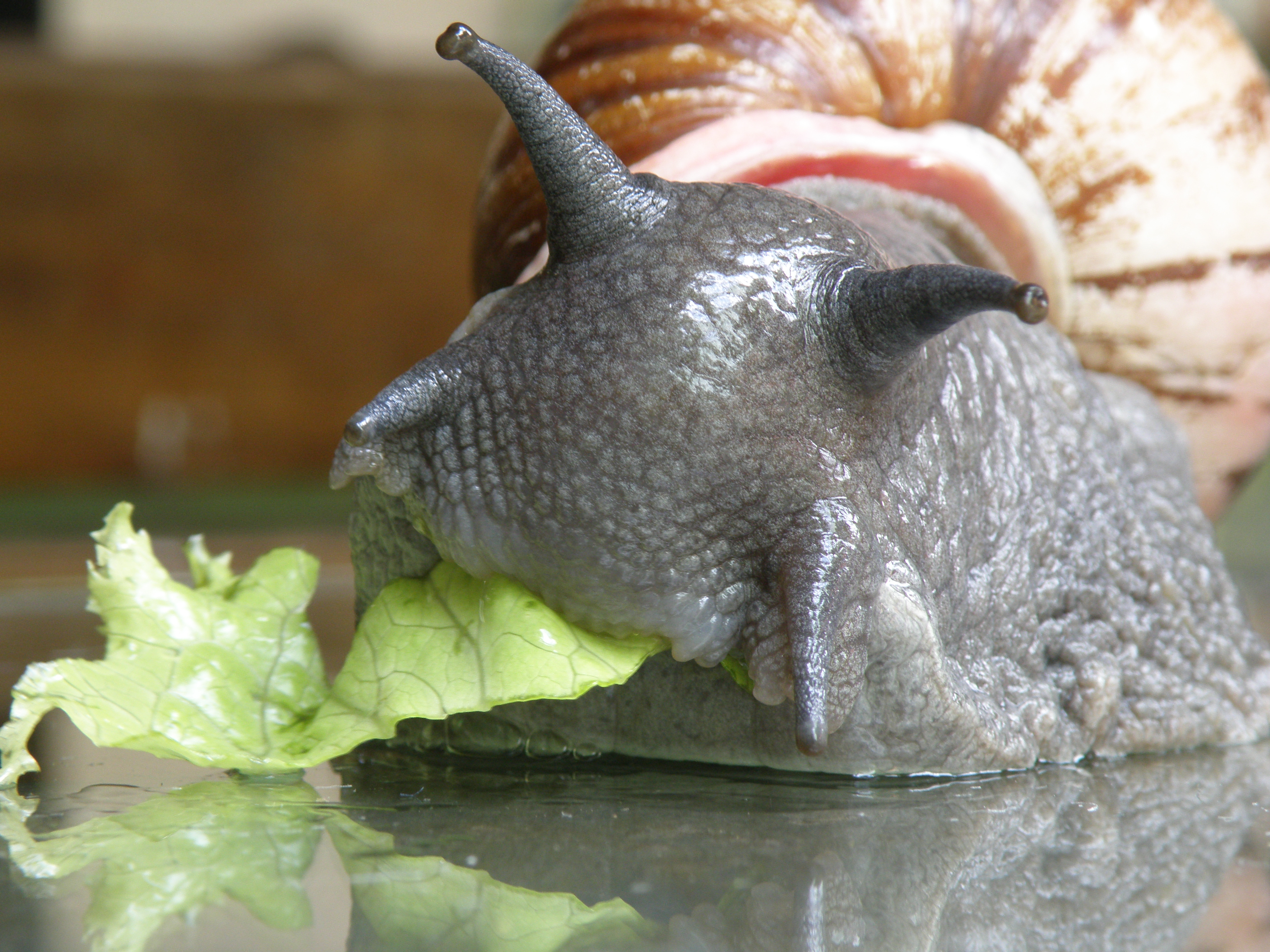 Unidentified Brazilian Snail